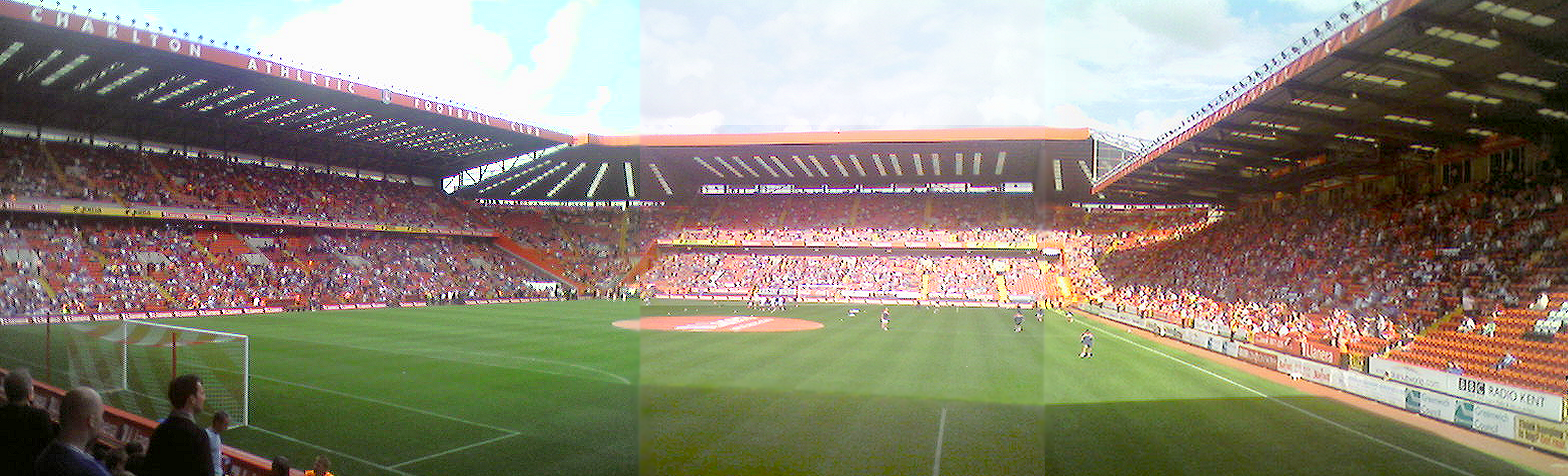 Panorama of The Valley (home of Charlton Athletic F.C.) taken by me from the Jimmy Seed/South Stand before the Charlton Athletic vs Leicester City match on 22nd September 2007